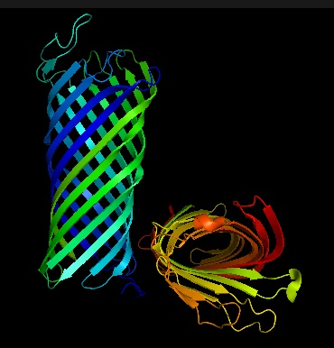 Crystal structure of OmpT protease, based on information from PDB #1I78.